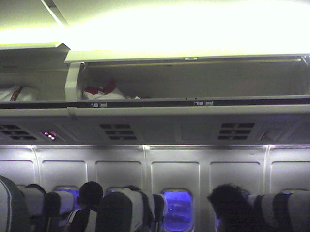 Absence of row 17 in an Alitalia plane.